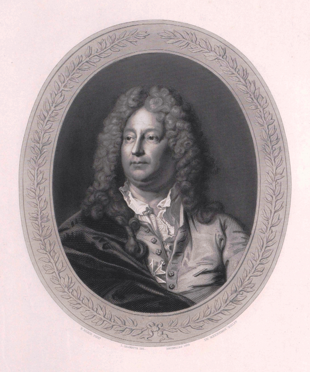 Portrait Gérard Edelinck, nach Hyacinthe Rigaud